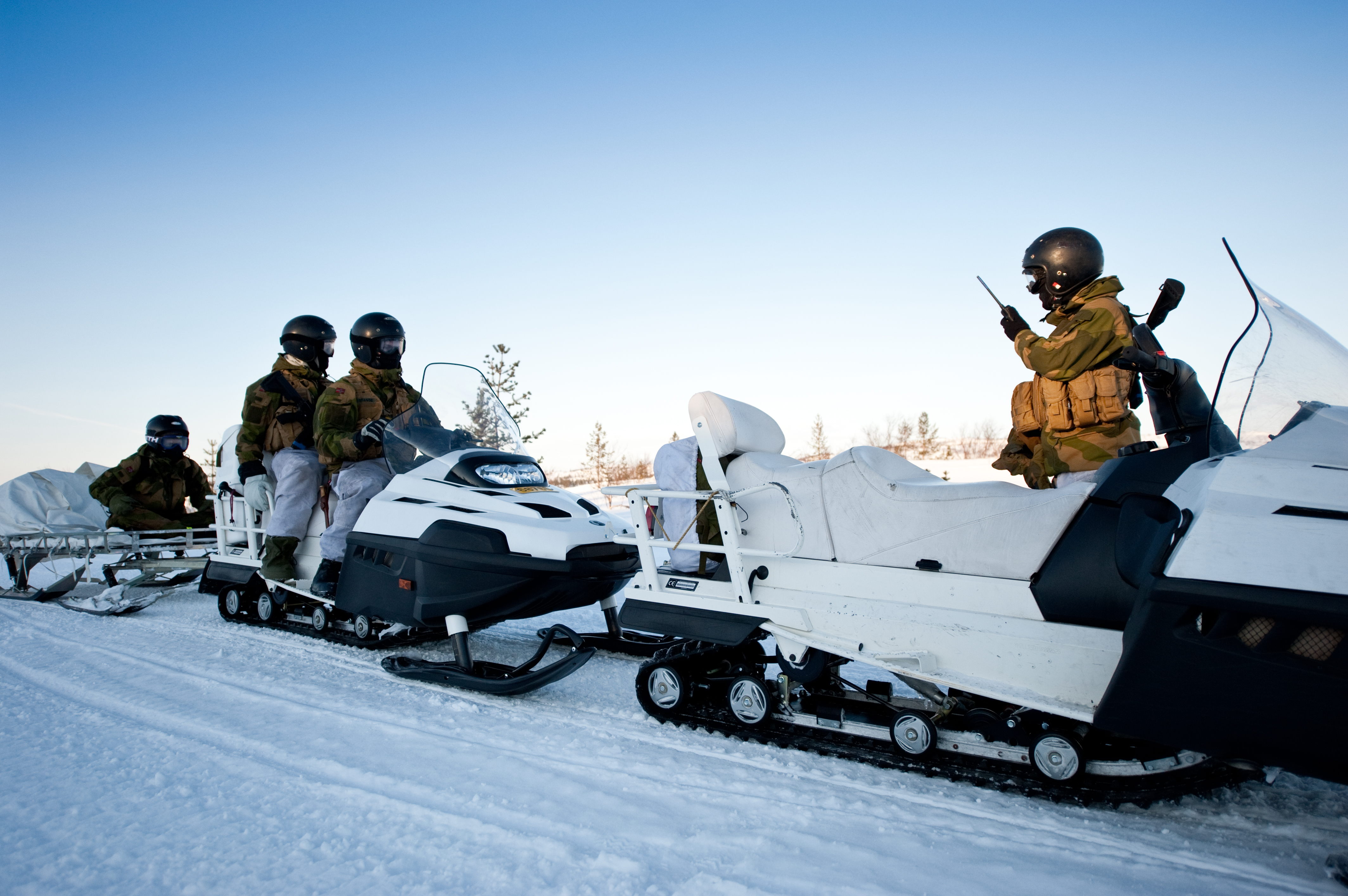 GSV (18 of 46)